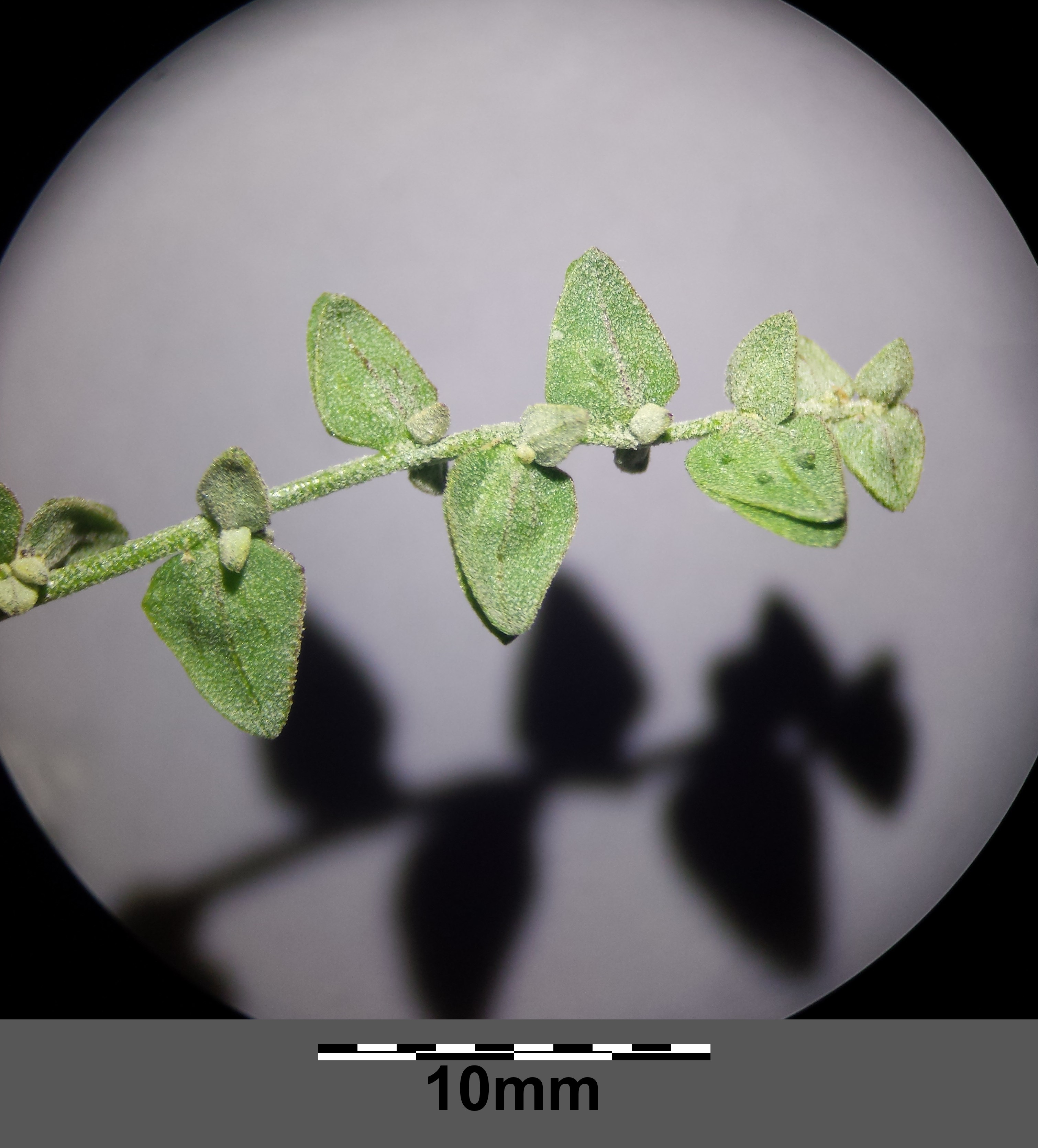 Inflorescence (detail) Taxonym: Atriplex oblongifolia ss Fischer et al. EfÖLS 2008 ISBN 978-3-85474-187-9 Location: Schwarzlackenau, Vienna-Floridsdorf - ca. 160 m a.s.l. Habitat: ruderal, dry meadows